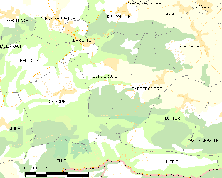 Map of French municipality